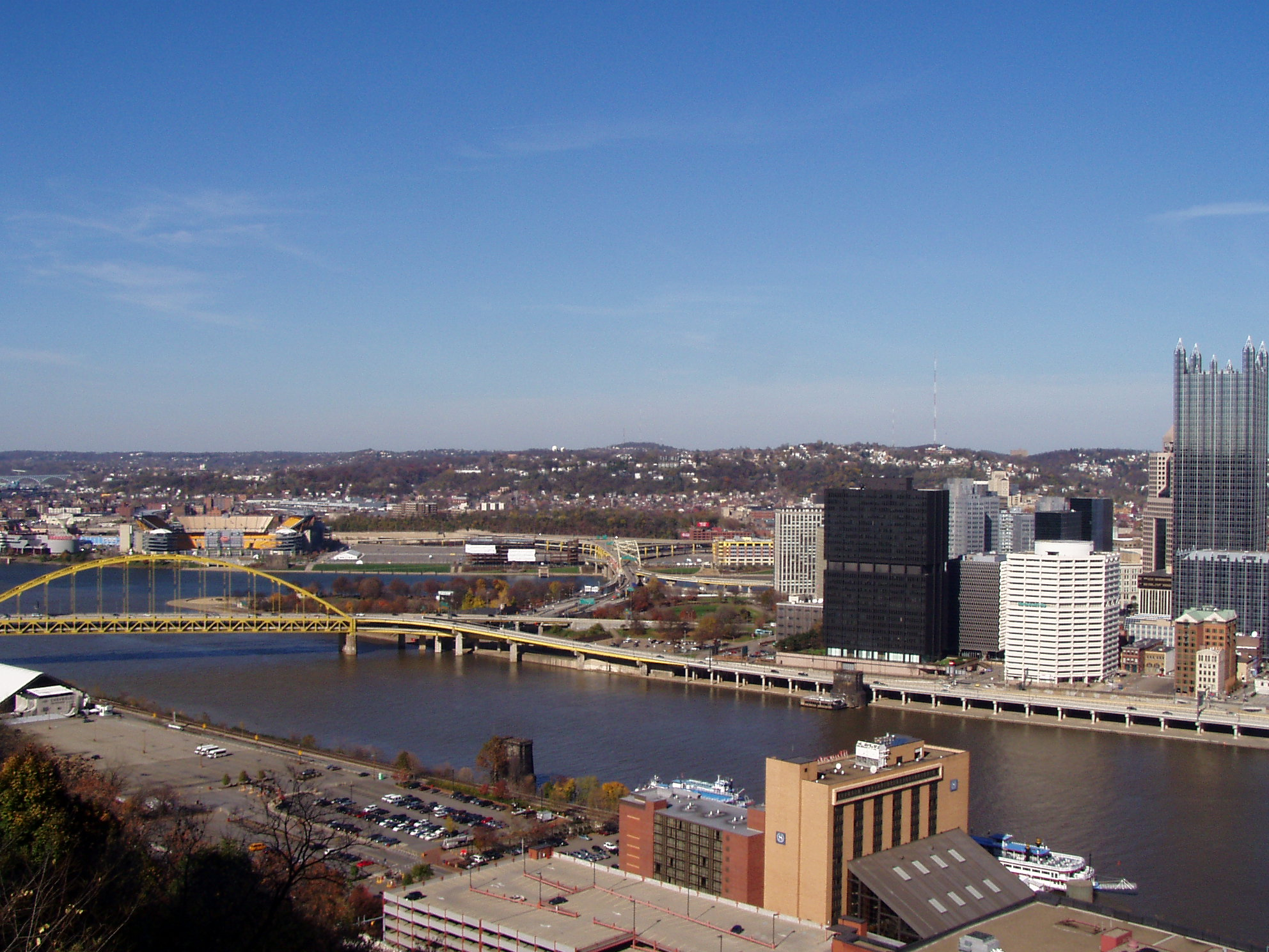 The piers of the Wabash Bridge, viewed from Mount Washington observation point, 2004.